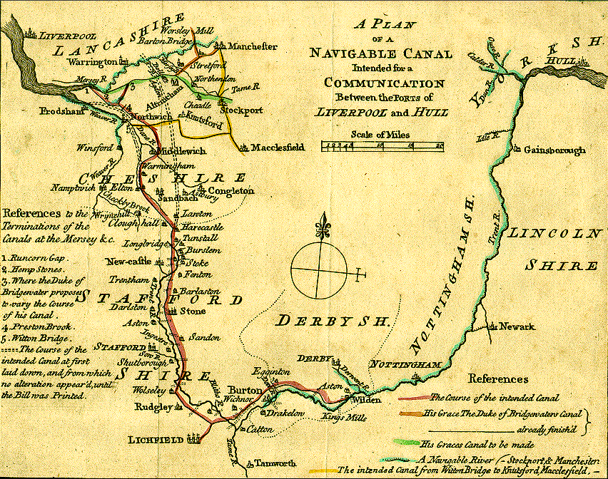 Map showing the Trent and Mersey Canal at the time of its proposal. The building act was passed in 1766.